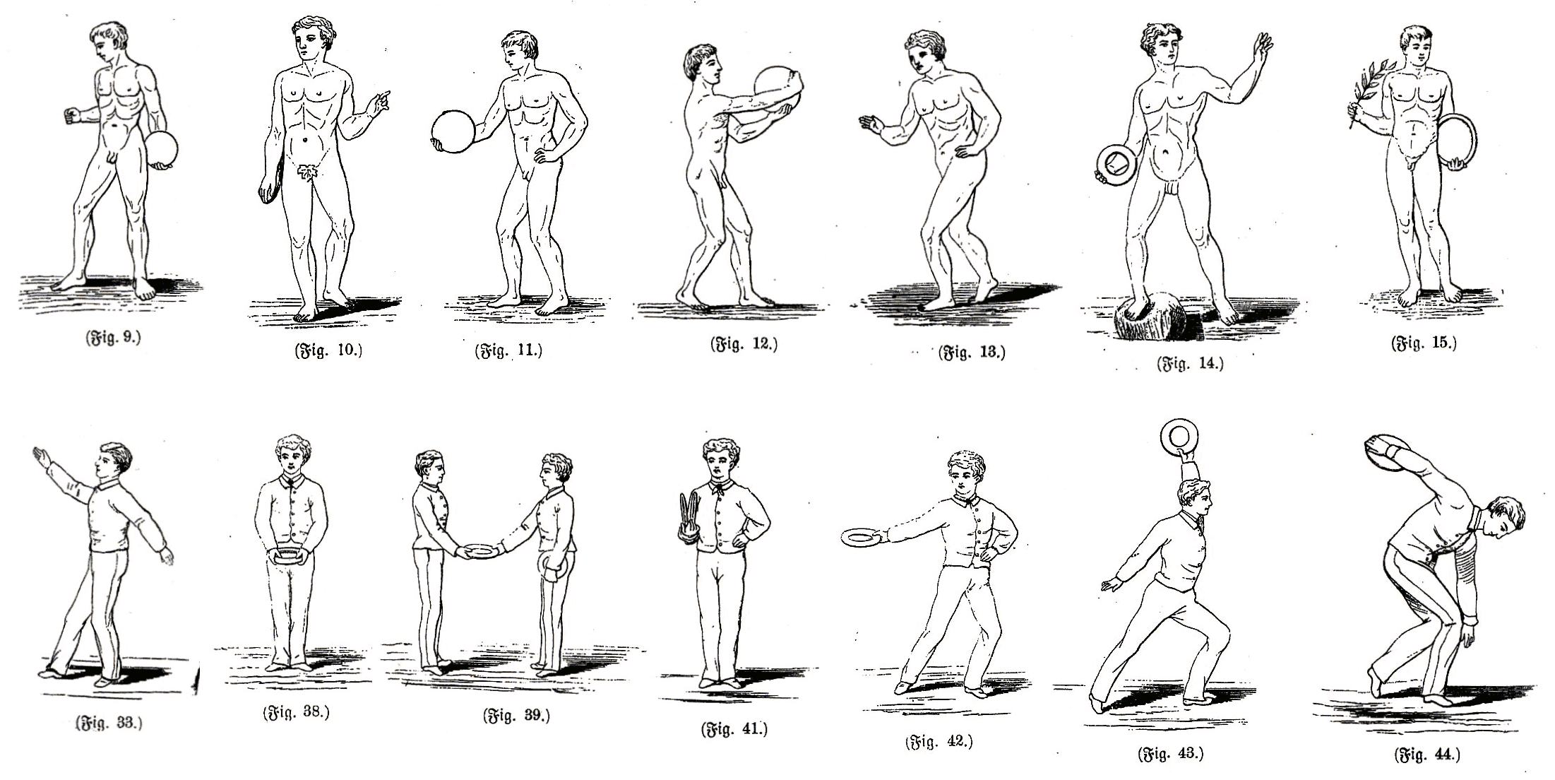 Diagrammes from the book introducing the re-developed discus in Germany in 1882, by Christian Georg Kohlrausch, 1851-1934